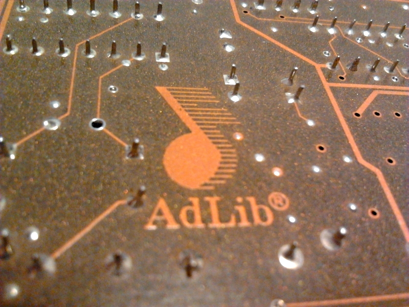 The AdLib logo as found on the silkscreen on the back of the Gold 1000.